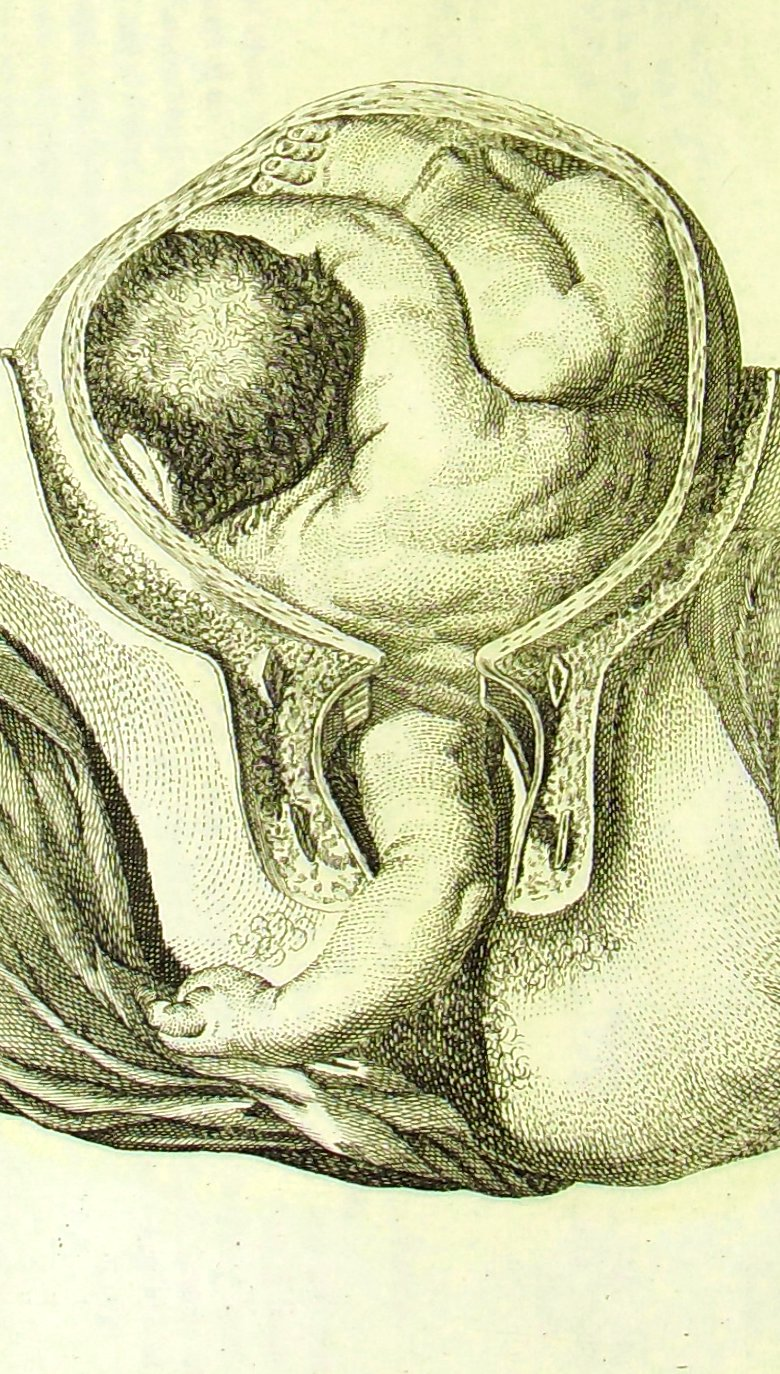 Plate 32 from Smellie's "A Set of Anatomical Tables"